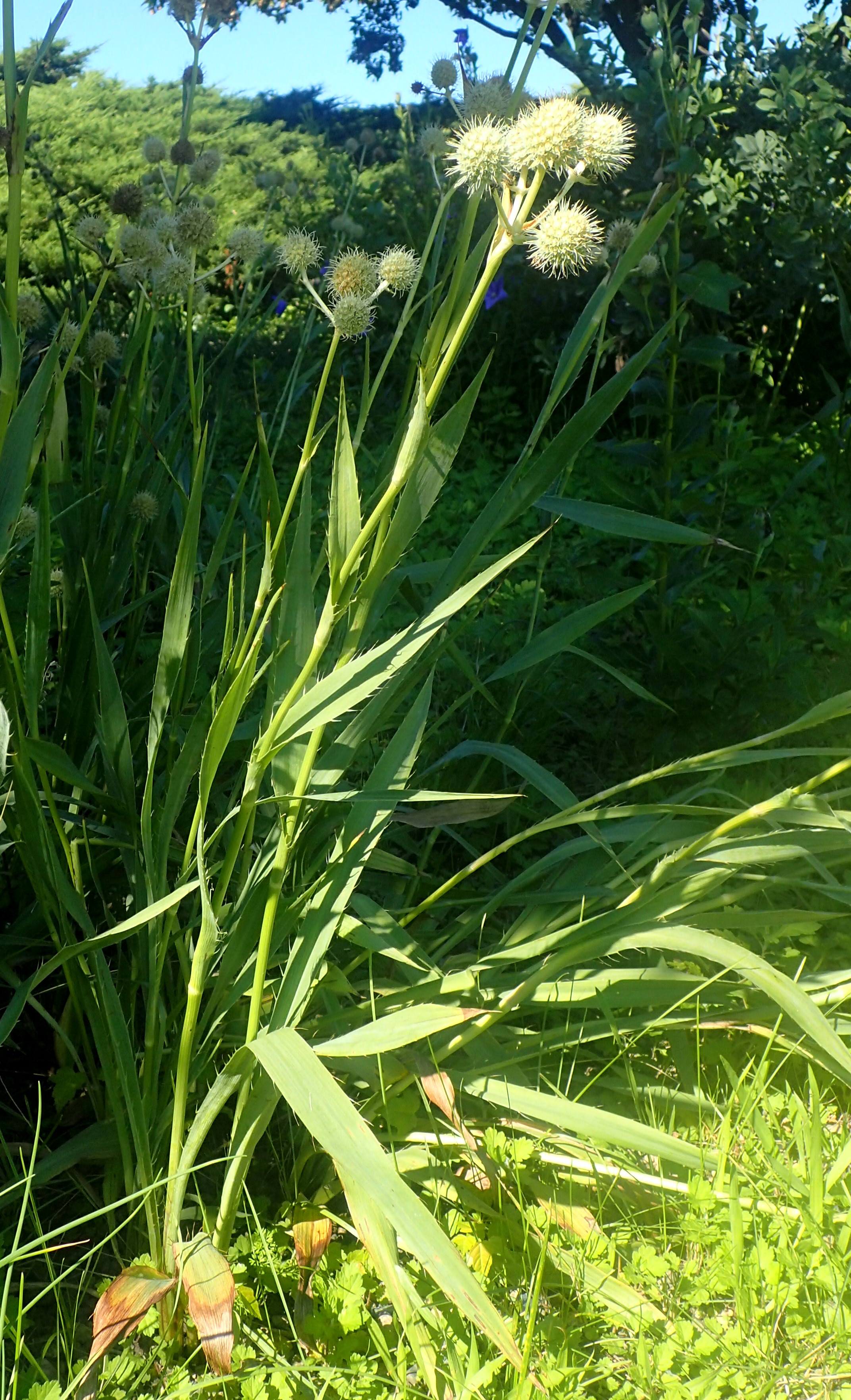 Eryngium yuccifolium at Garfield Park Conservatory